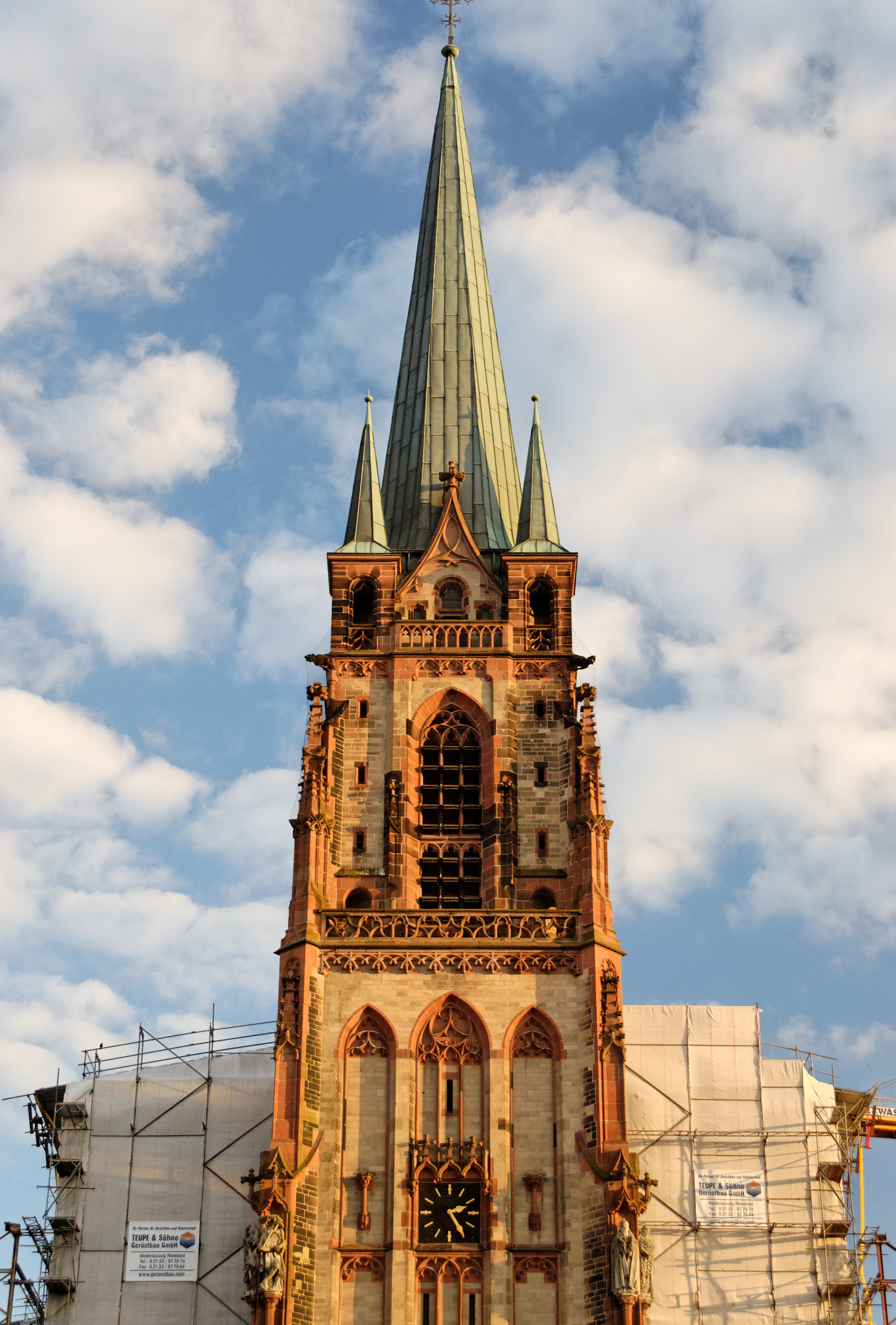 Church St. Peter in Duesseldorf-Friedrichstadt, Germany